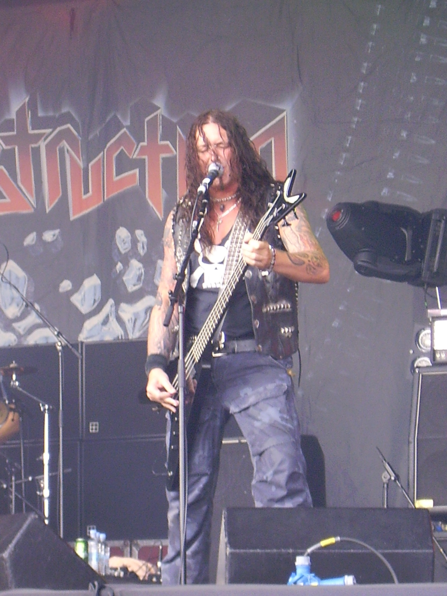 Marcel "Schmier" Schirmer performing at Bloodstock Open Air in 2008.